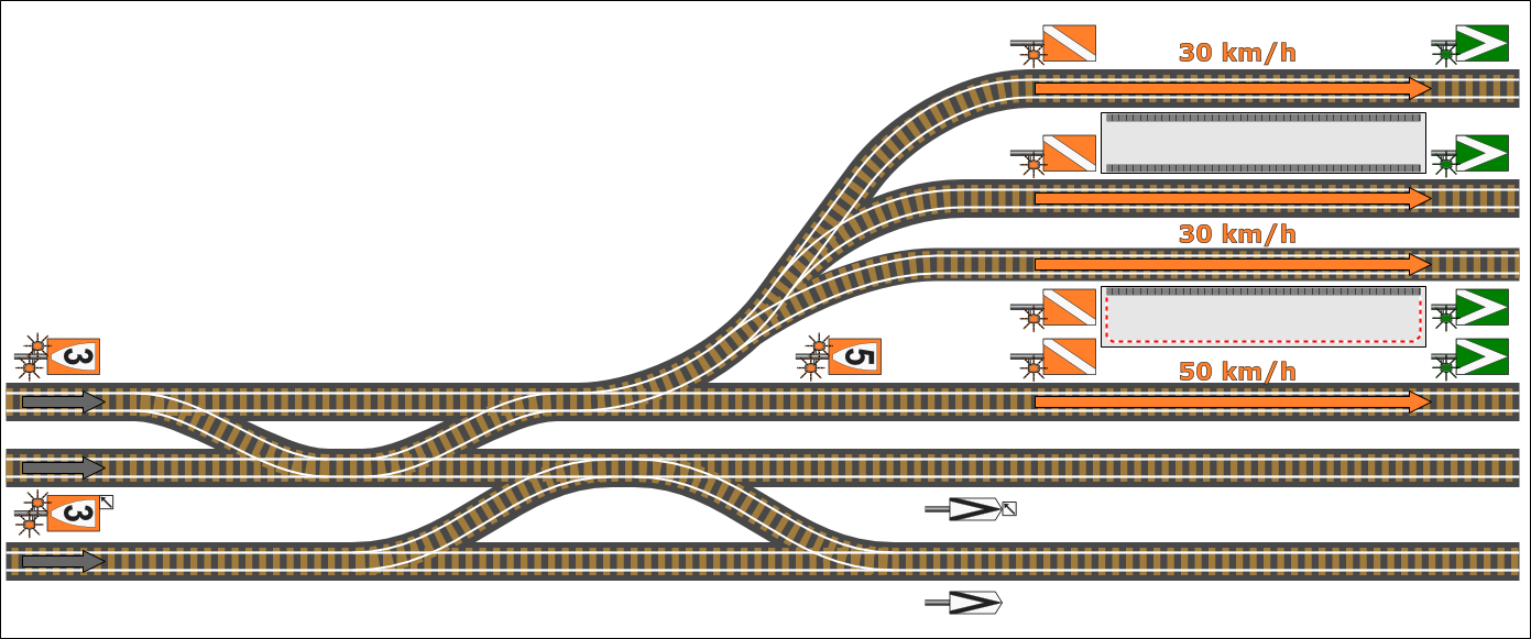 Diagrams of railway signals in Switzerland